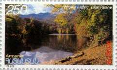 Stamp of Armenia